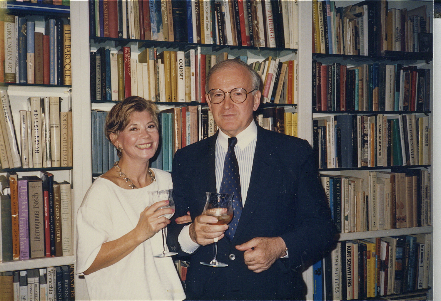 Alva and Robert Craft, photo by my dad. At his library in his home in Florida, c. early 1990s.